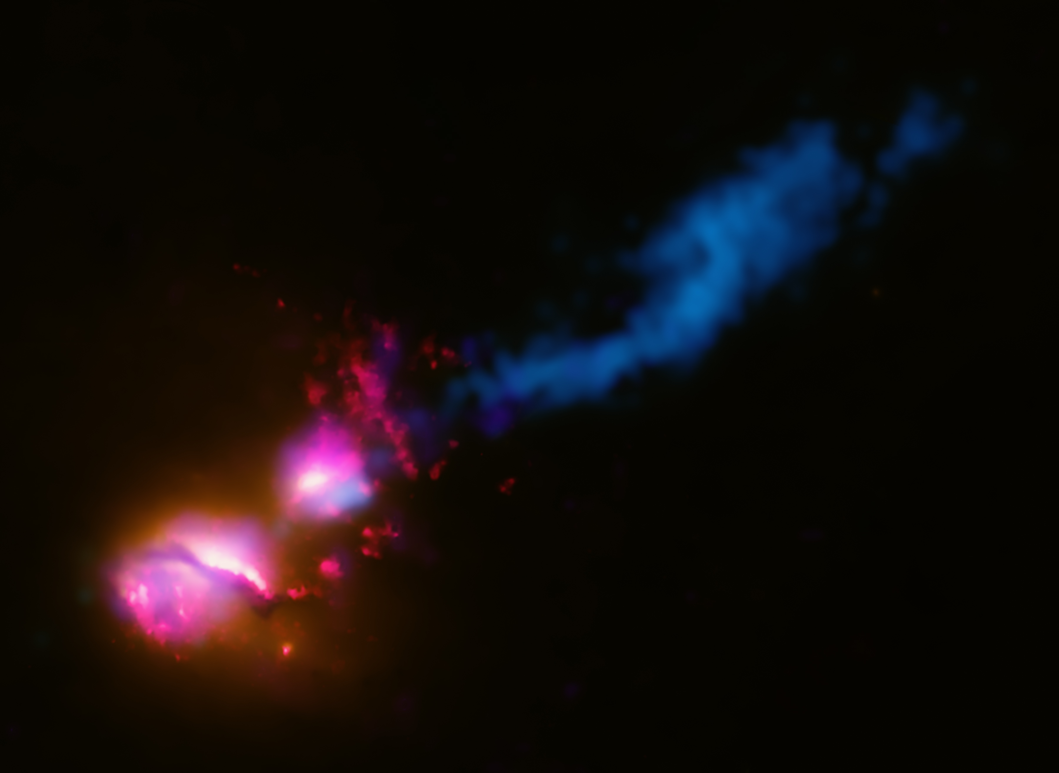 This is a composite image showing a jet from the black hole at the center of the main galaxy (lower left) striking the edge of a companion galaxy (upper right). X-rays from Chandra (colored purple), visible and UV from Hubble (red & orange), and radio from the Very Large Array and MERLIN (blue).